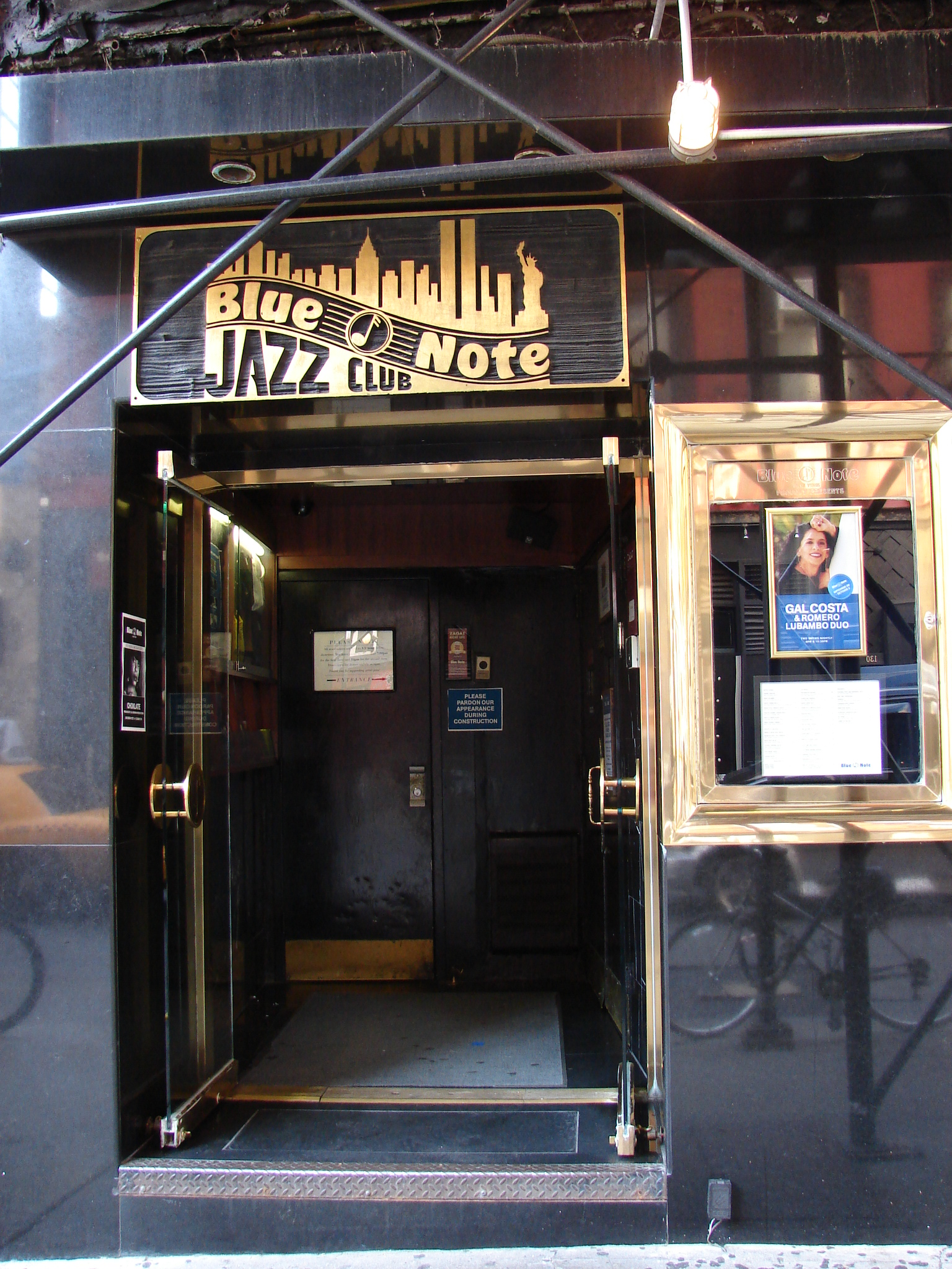 This photo is of Wikis Take Manhattan goal code F16, Blue Note (New York).